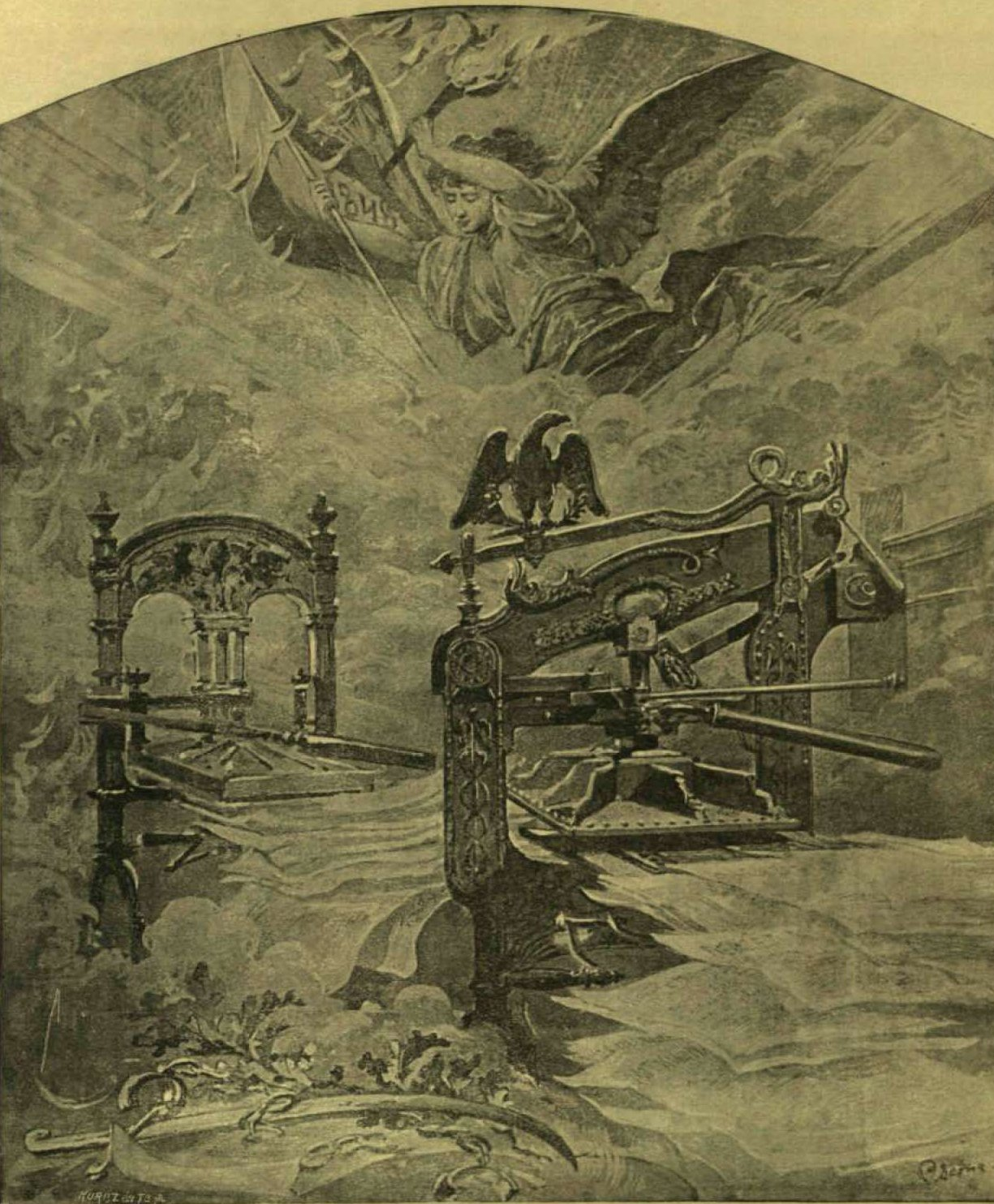 Day of Hungarian freedom of the press (15 March 1848).